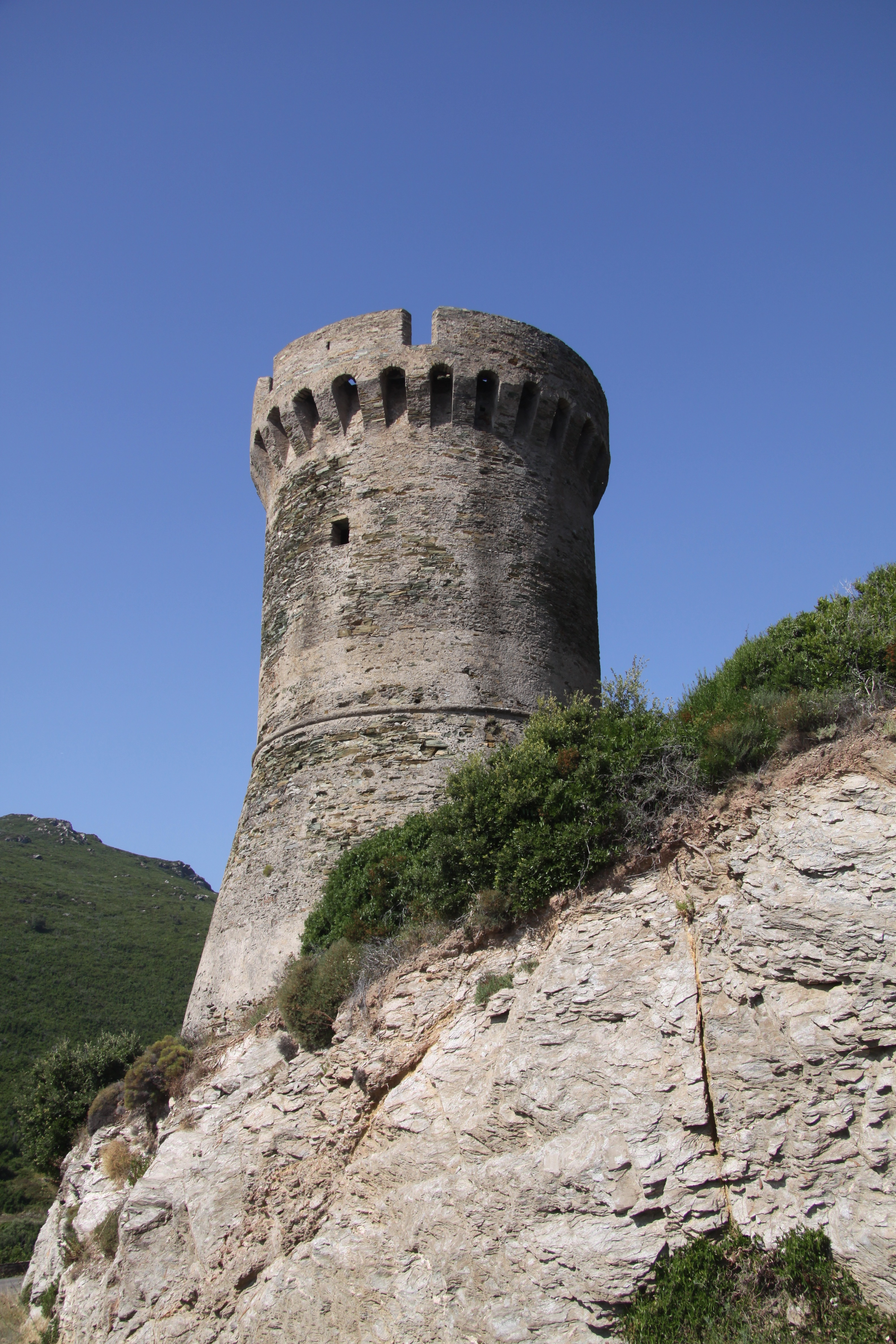 Genoese tower in Corsica.